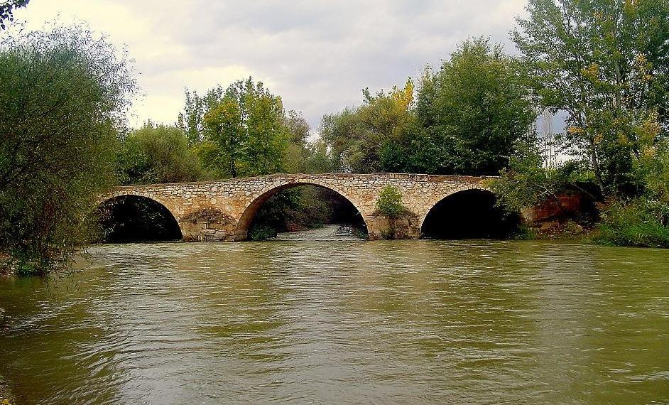 Hançalar Bridge over Büyük Menderes River in Çal, Denizli Province, Turkey